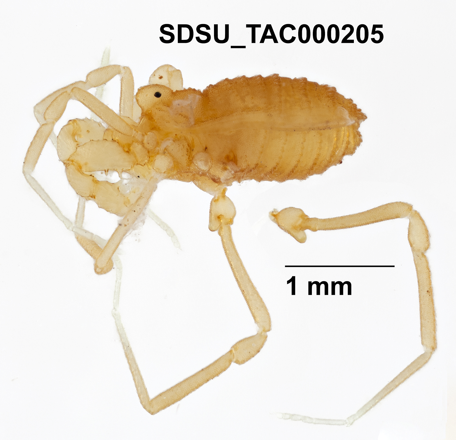 Sitalcina rothi Ubick & Briggs, 2008; PRESERVED_SPECIMEN; MALE; ADULT; 23/03/2012 00:00; Identified by: M Hedin